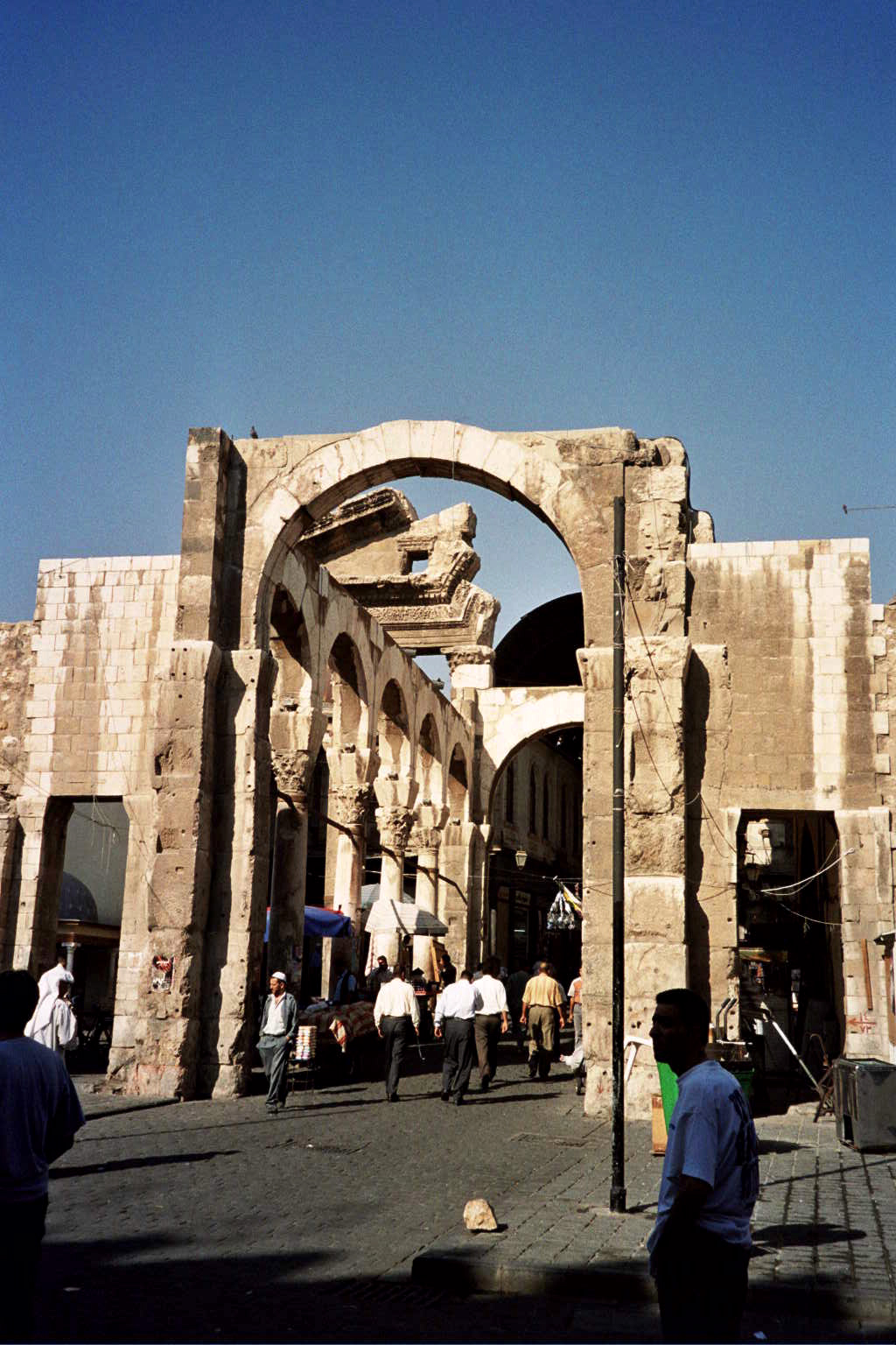 Jupiter temple - Damascus